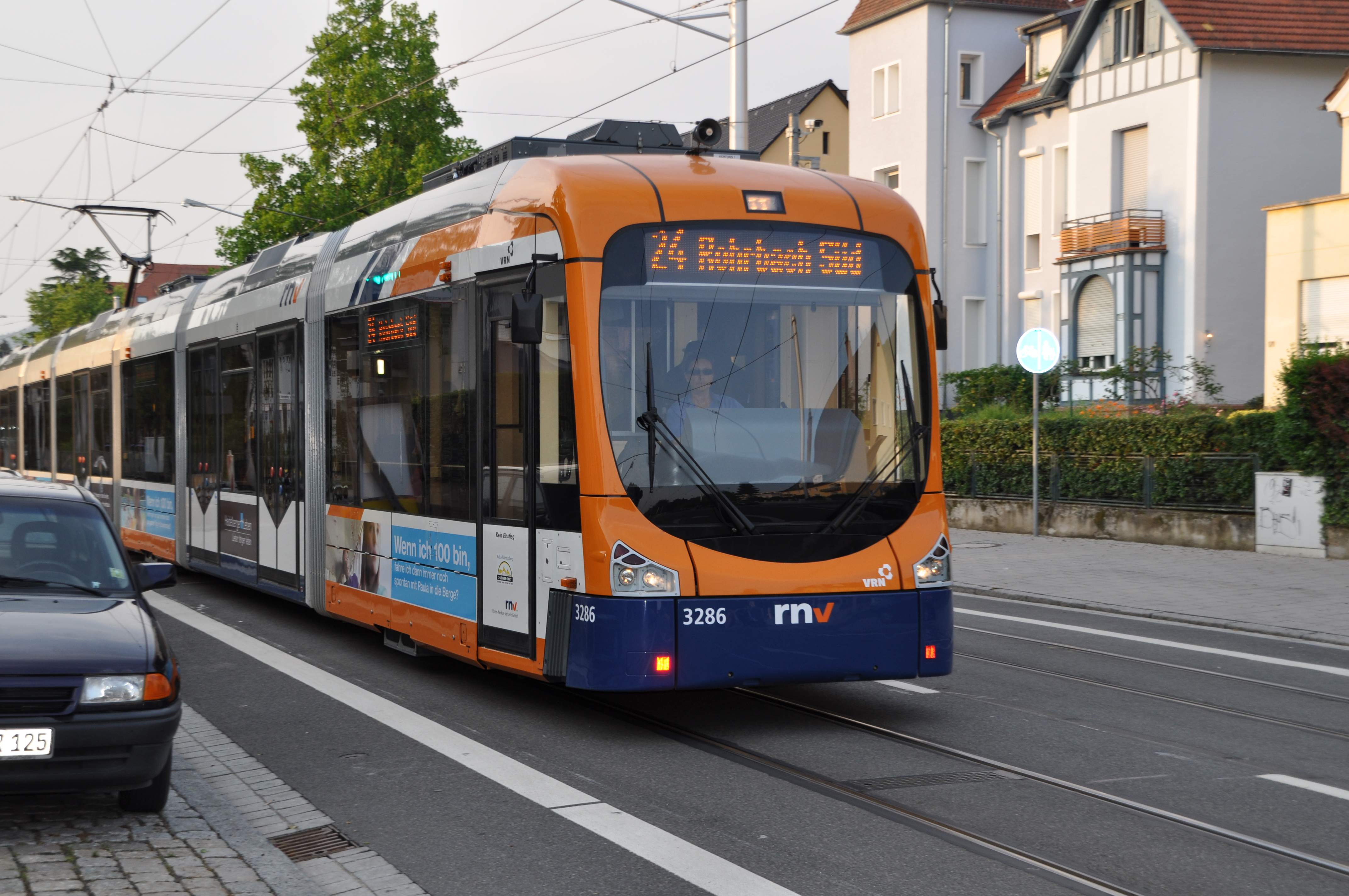 Tram in Heidelberg